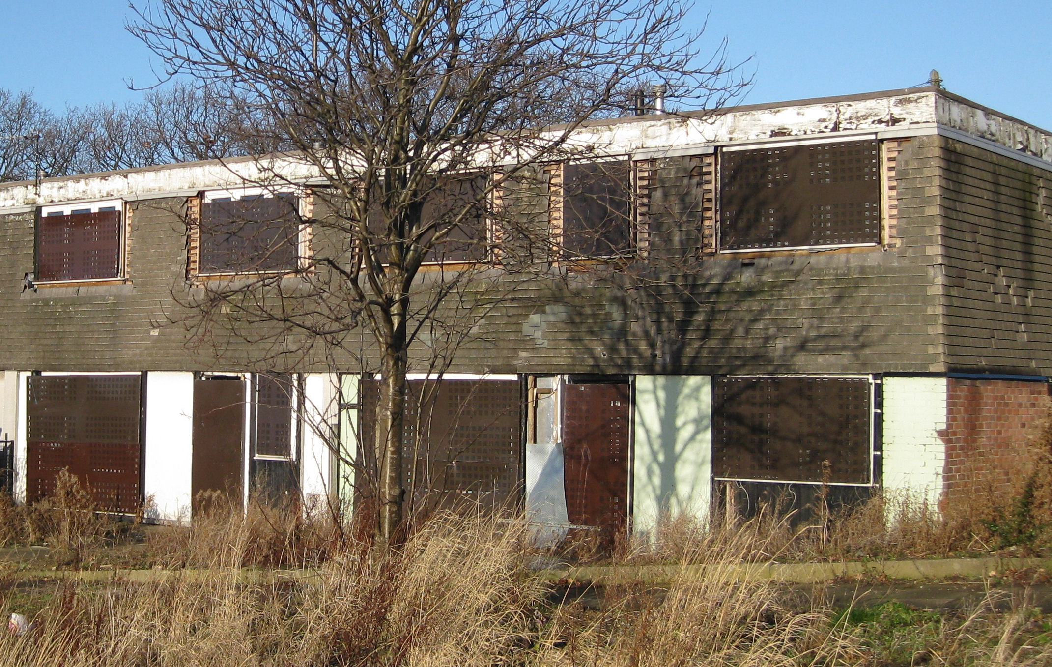 Boarded up housing South Parkway, Seacroft, Leeds LS14